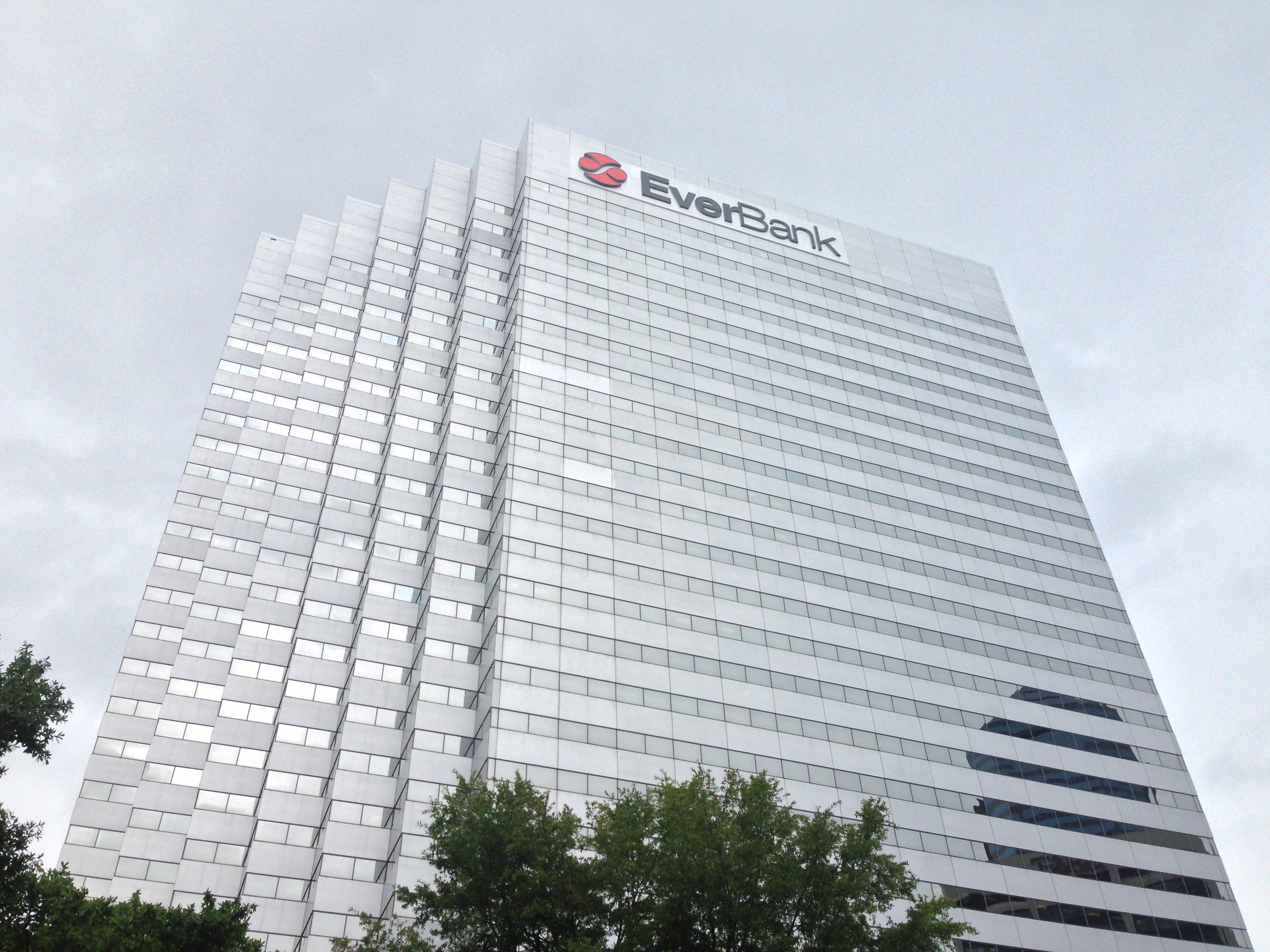 EverBank Center, Northbank, Jacksonville, Florida